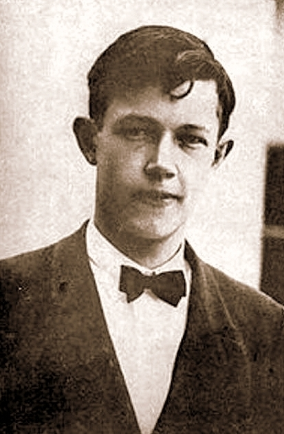 This is a portrait of Boris Kowerda (Borys Kowerda) in 1927, then a student at Russian Gymnasium in Wilno.